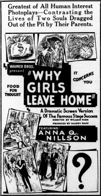 Newspaper advertisement for the American film Why Girls Leave Home (1921), on page 9 of the January 14, 1922 Duluth Herald.